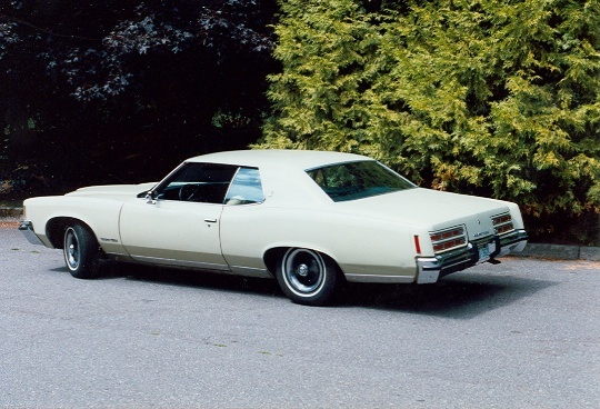 1972 Pontiac Grand Ville coupe